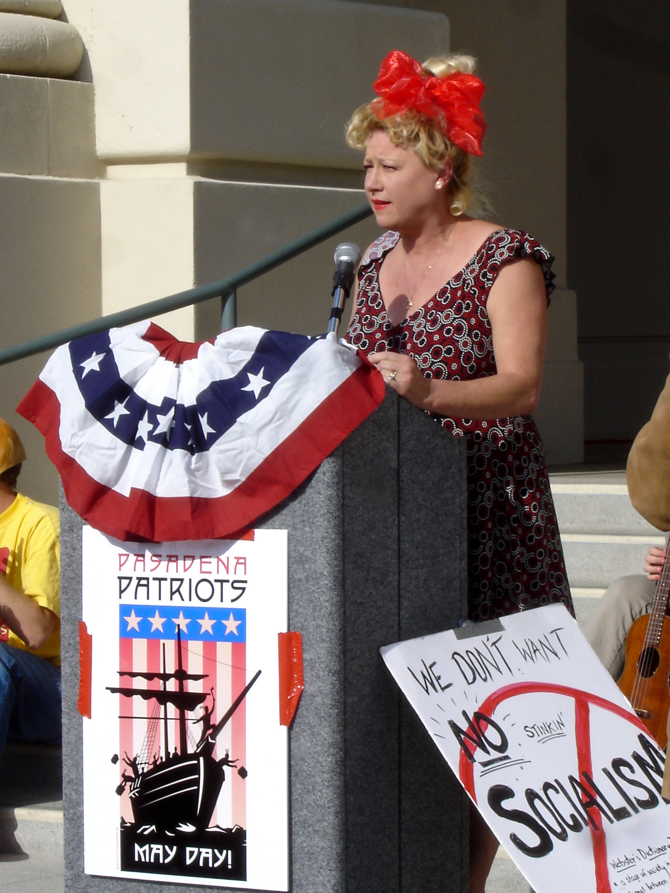 Comedienne Victoria Jackson at a Tea Party rally in Pasadena, California